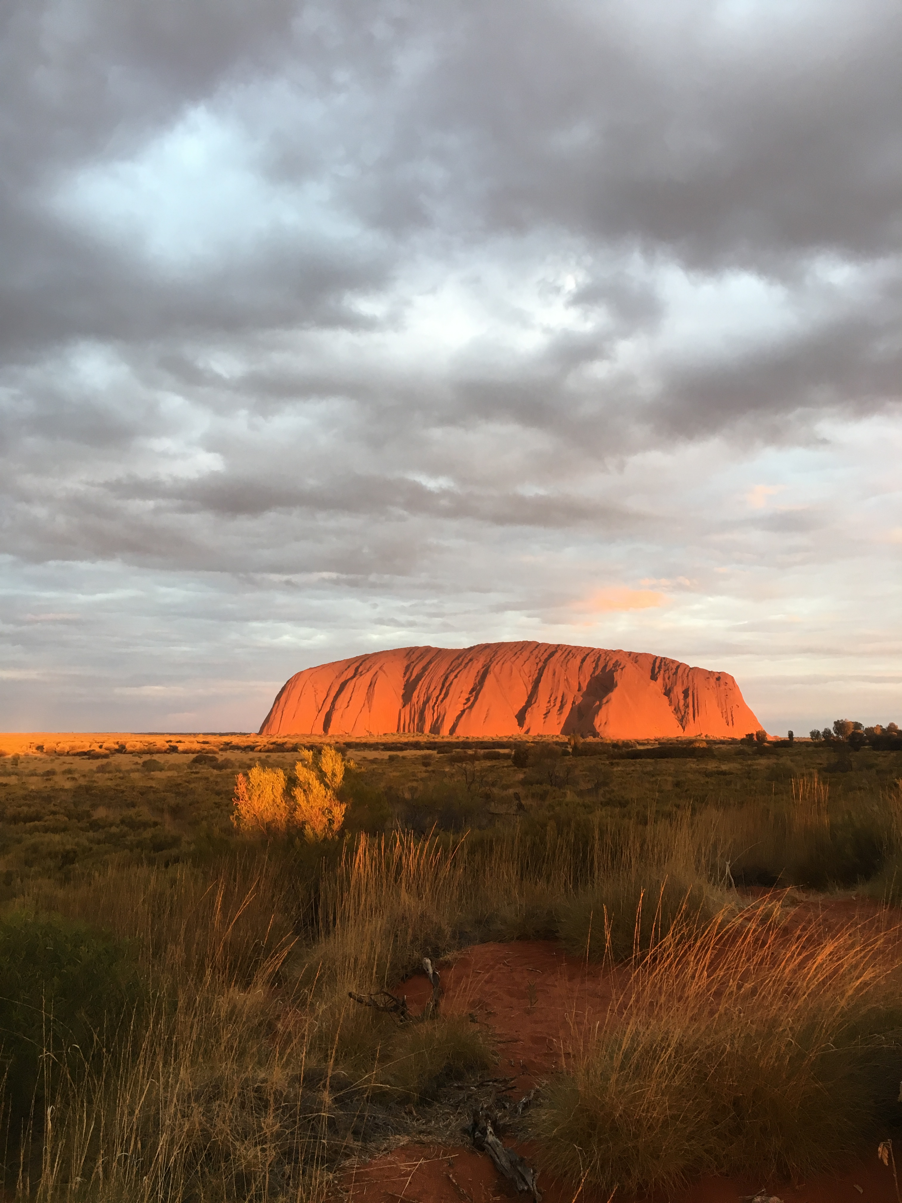 This image to me represents how people may appear a certain way in one light, in the way someone sees them, but in a different light, a different way, people can be seen as different. SO you can't judge a person just from the way they act one way- for example, just because someone volunteers at Vinnies, doesn't mean that they are an angel always, they could just be volunteering to get a bonus on their resume...